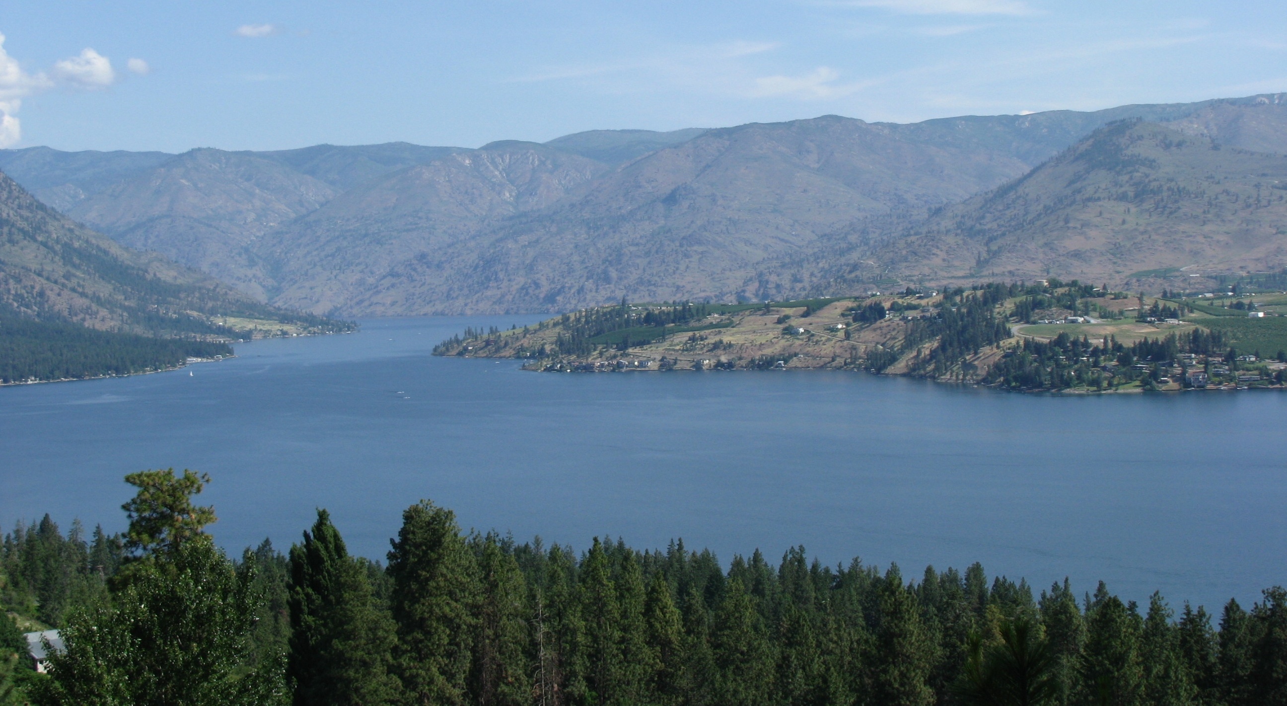 View of Lake Chelan from Hwy971 (Navarre Coulee Road).